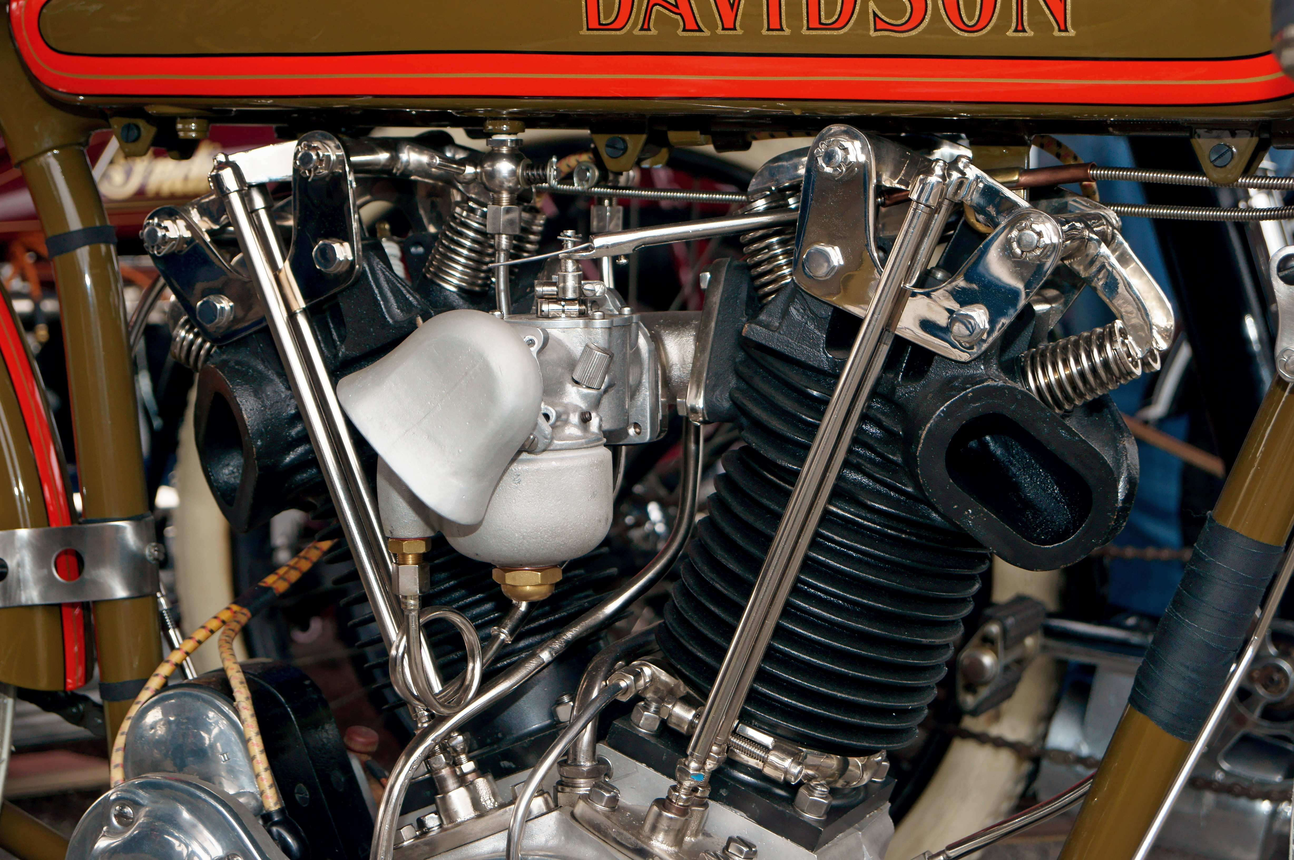 Harley Davidsons Boardtracker 61cui V-Twin with 4 valves per head.